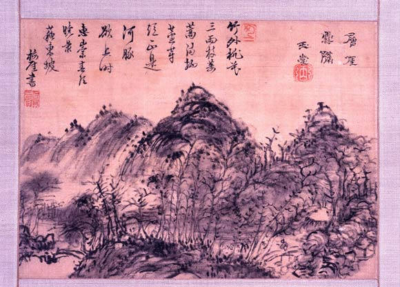 Clouds Shield the Layered Cliffs, Chinese landscape art. By Uragami Gyokudo.